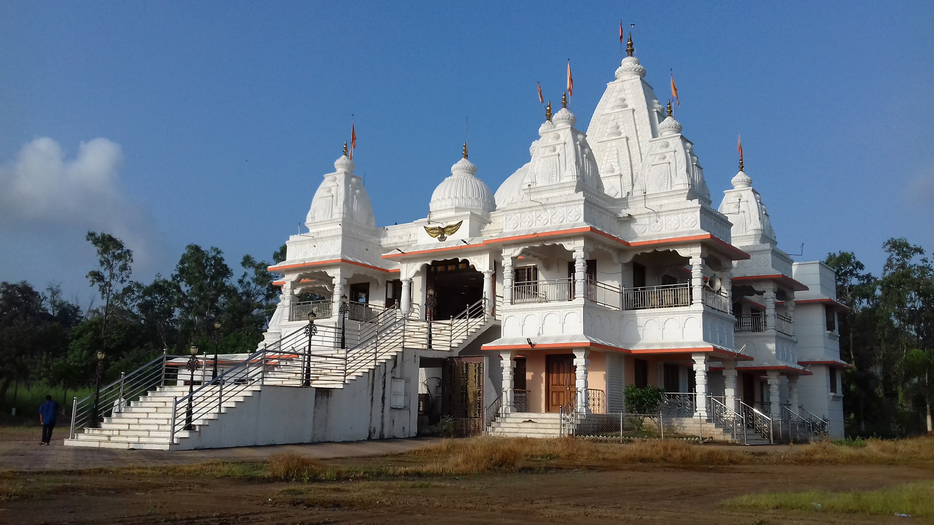 Named as Ratneshwari Temple and situated in one of the village of Uran district, Jaskhar, offers you a blessings in one of the finest month of April.